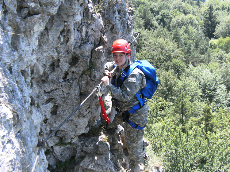 JROTC cadet Amaris Bays, Bamberg High School, safely negotiates the "Klettersteig" southwest of Grafenwoehr, Germany. See more at JROTC Leadership camp brings camaraderie, competition to cadets